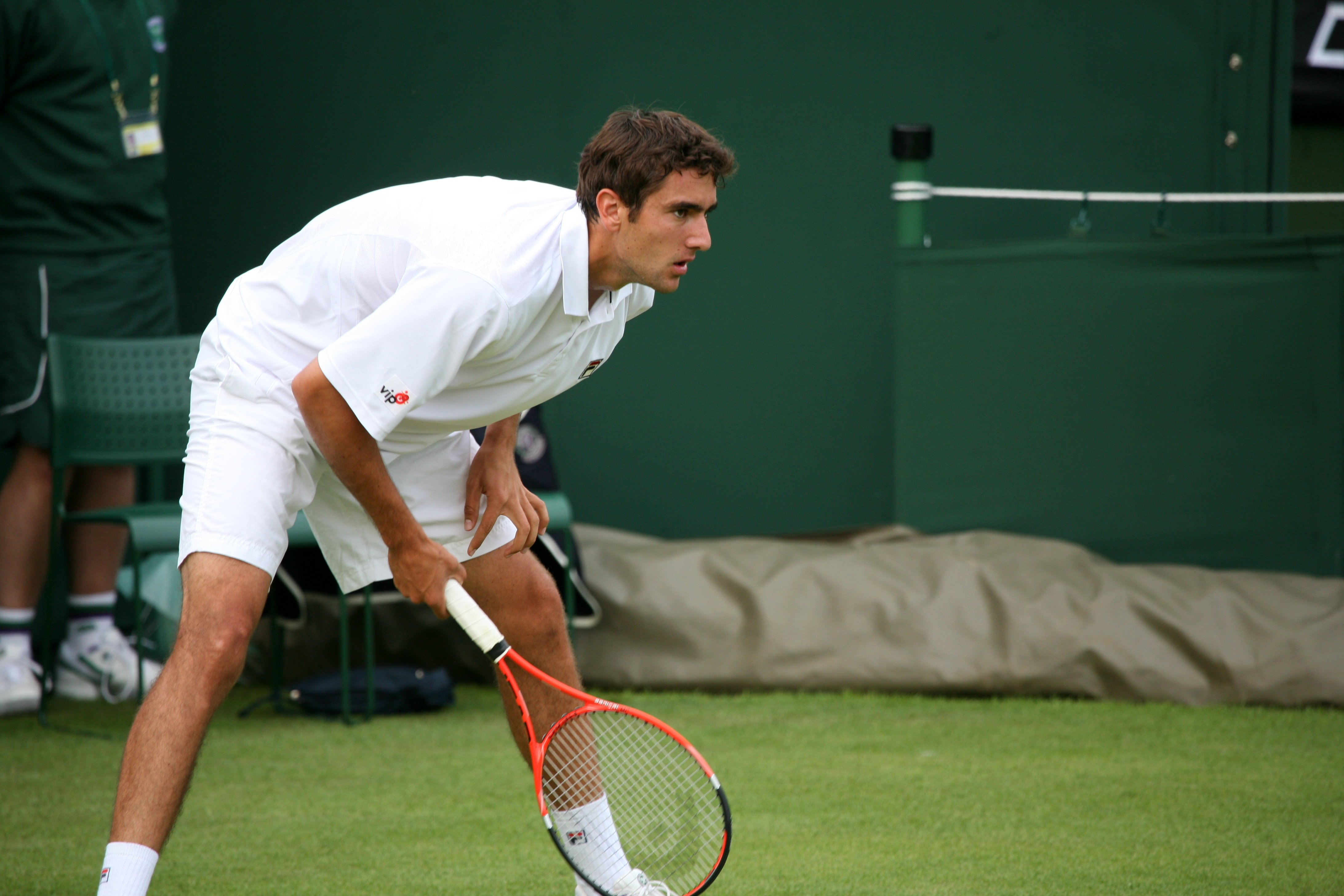 Marin Čilić against Alberto Martín in the 2009 Wimbledon Championships first round